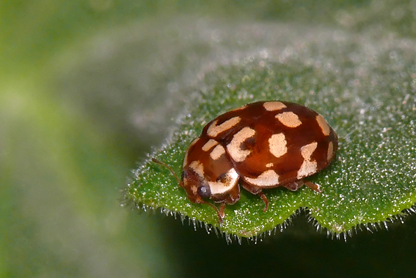 Myrrha octodecimguttata. Found in Vilnius, Lithuania